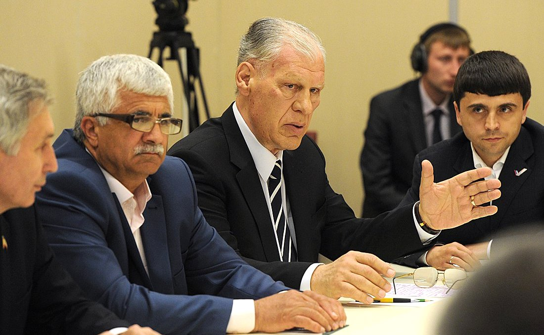 Vladimir Putin's meeting with representatives of the Crimean Tatars